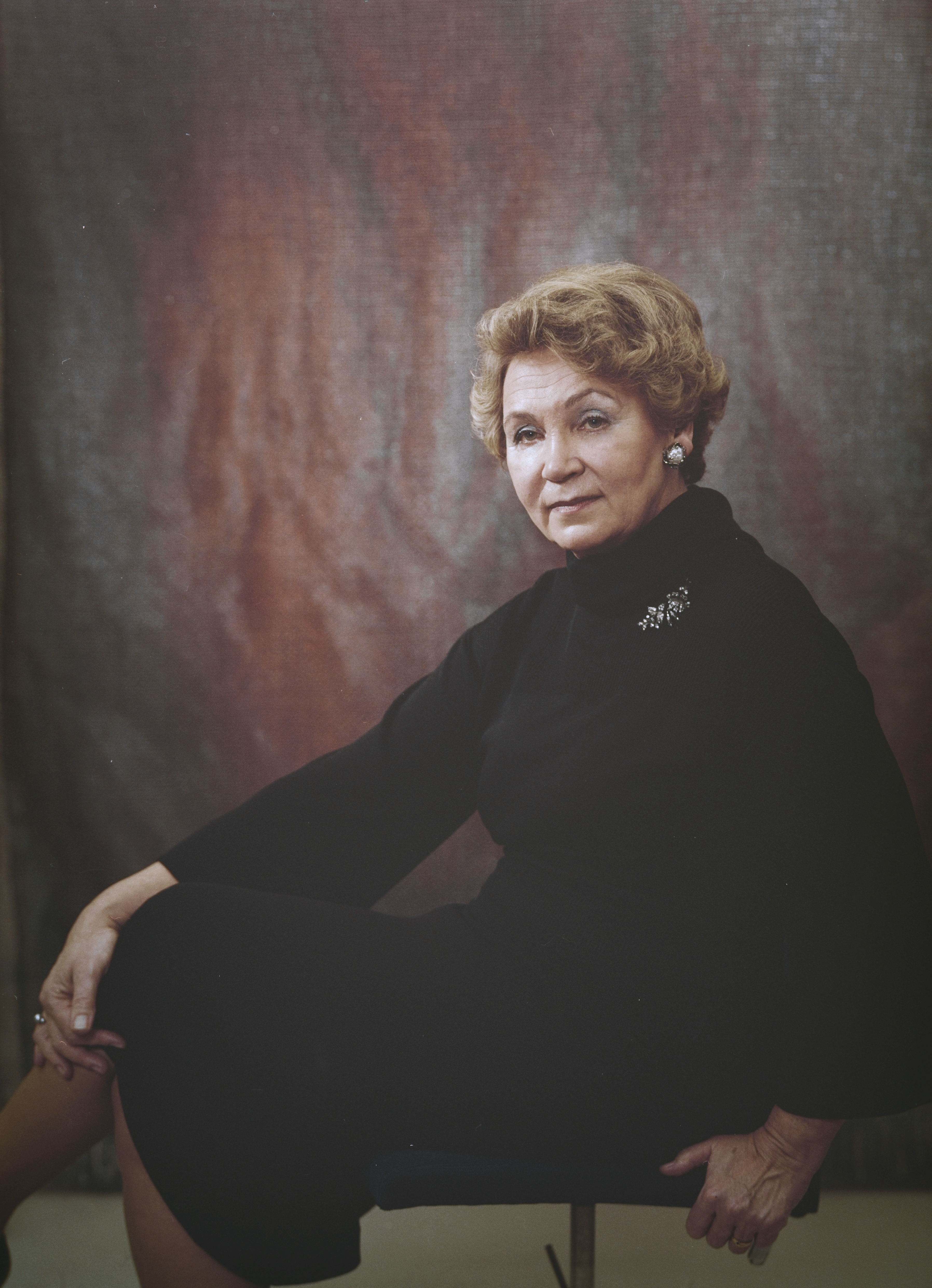 Photograph of the Finnish architect Aino Kallio-Ericsson (1917–2018).